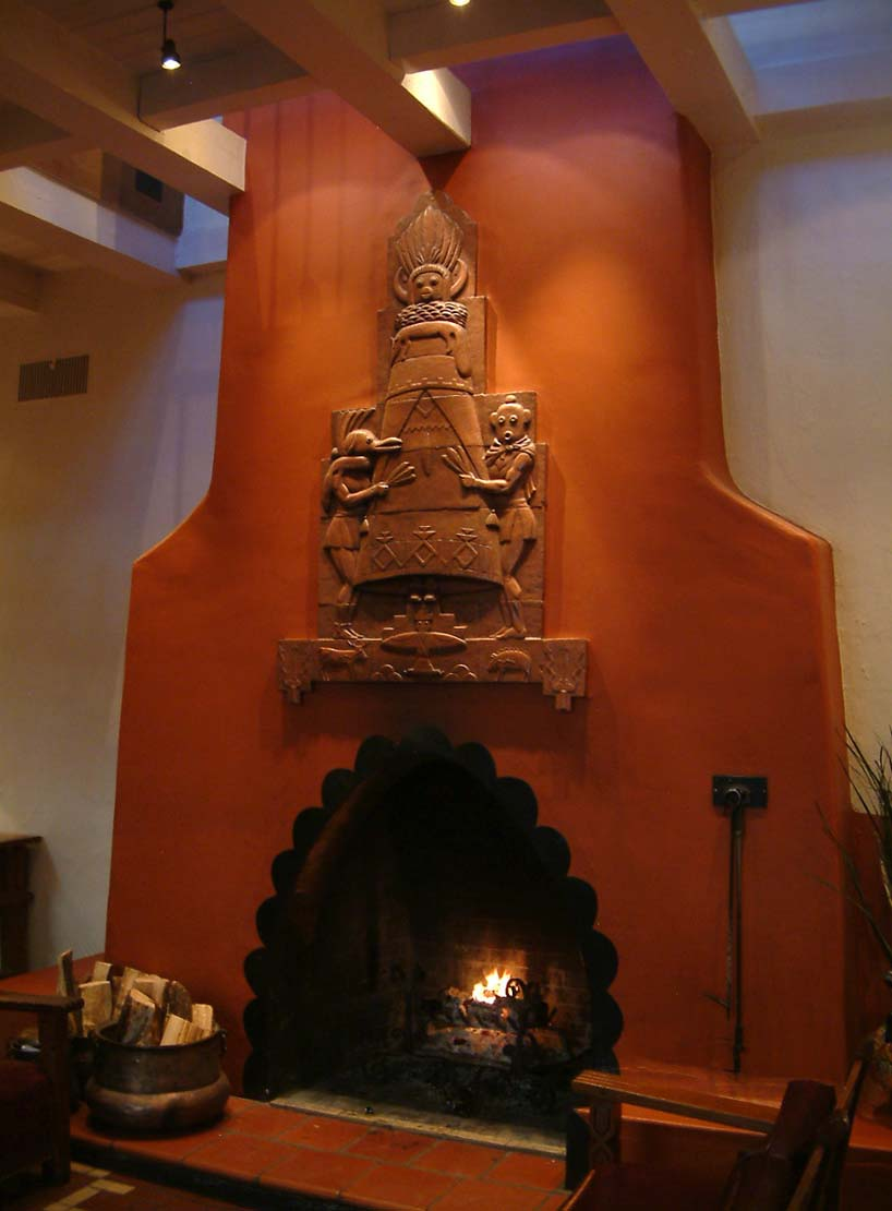 photo of a fire place at the La Fonda Hotel in Santa Fe, NM, USA created by A Rönnebeck